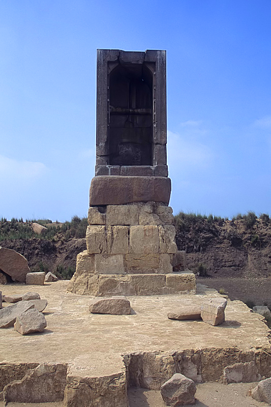 Amasis naos at the hill of Tell el-Rub', Nile delta, Egypt